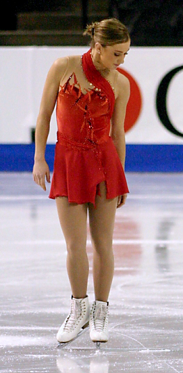 Joannie Rochette competes her short program at the 2004 Four Continents Championships in Hamilton, Ontario.